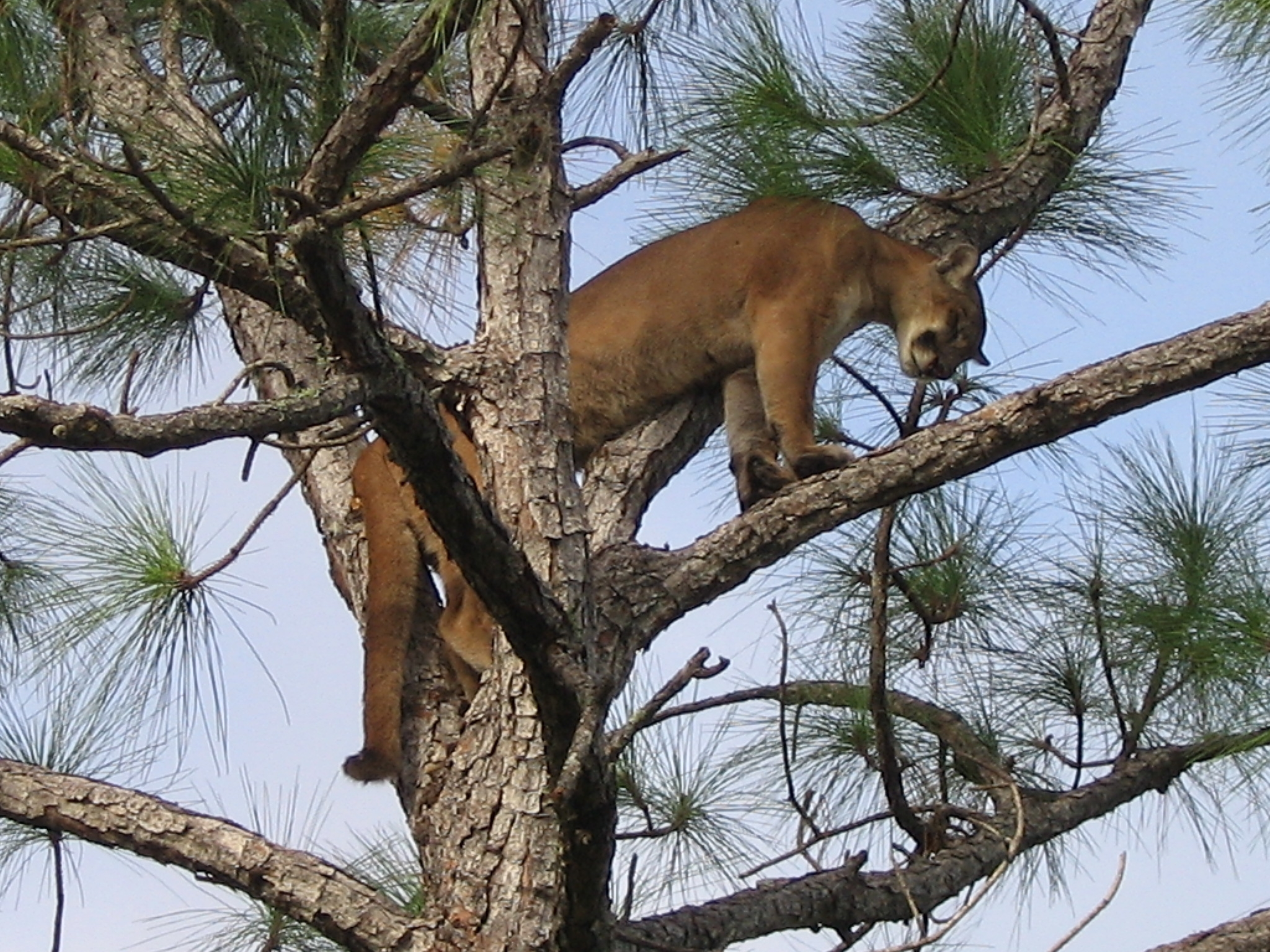 Credit: Mark Lotz, Florida Fish and Wildlife Conservation Commission